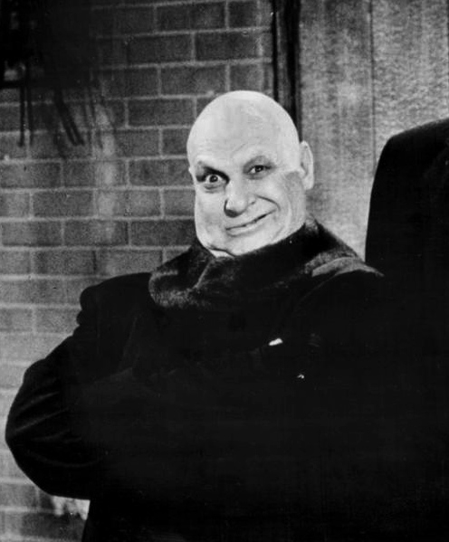 Image of Jackie Coogan, cropped from a publicity photo of Jackie Coogan (Uncle Fester) and Ted Cassidy (Lurch) from a personal appearance booking at Pleasure Island (Massachusetts amusement park, Wakefield Massachusetts).